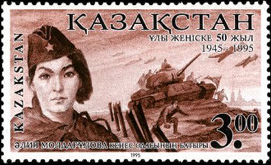 Alia Moldagulova on Kazakhstan's stamp dedicated to 50th anniversary of victory in WW2, 3 tenge, 1995